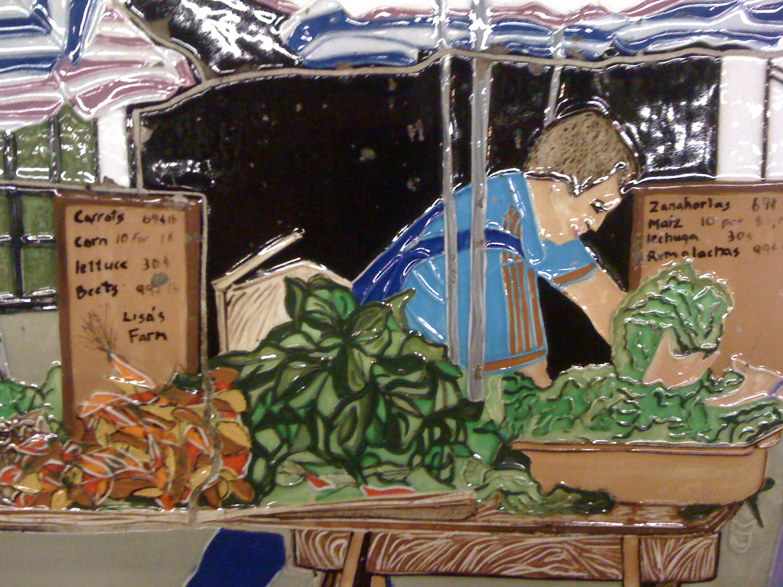 Detail of Ceramic relief — by Nitza Tufiño. Located at the 86th Street uptown subway station — in Manhattan (NYC).